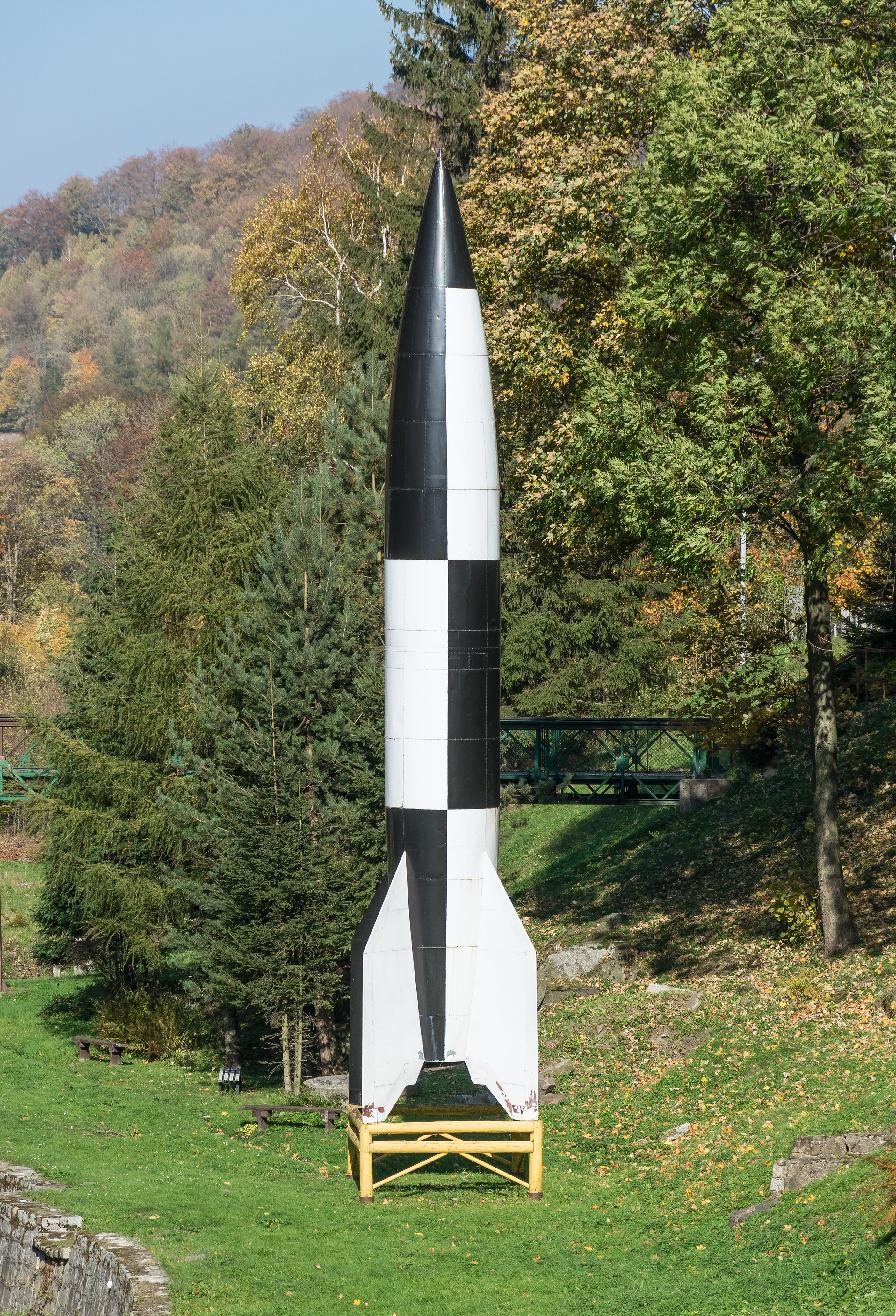 Project Riese, Complex Rzeczka, V-2 missile